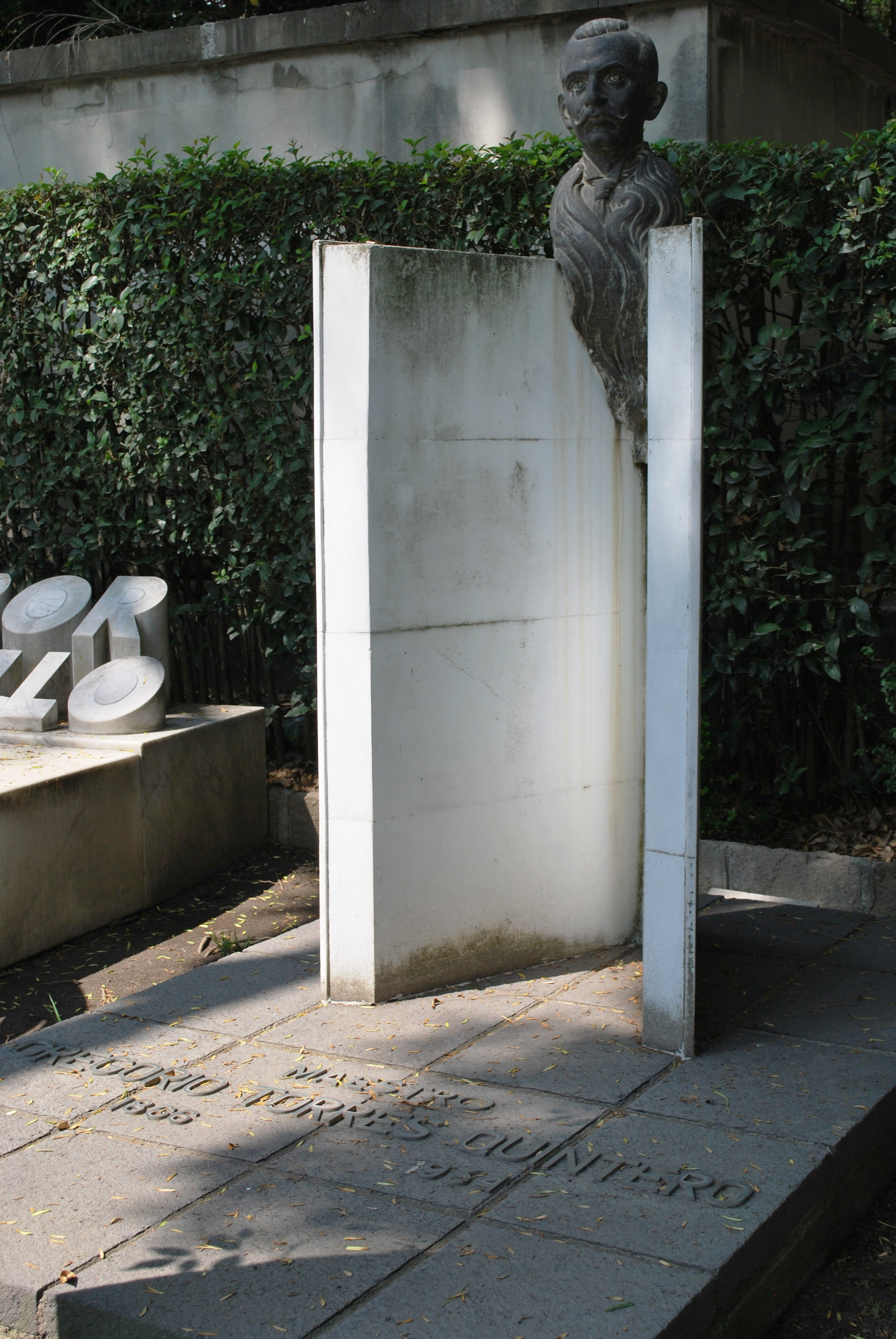 Tomb of Gregorio Torres Quintero in the Panteon Civil de Dolores cemetery in Mexico City